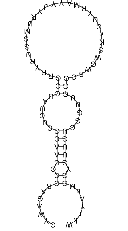 RNA secondary structure of TB10Cs2H1 generated by the WAR server( It is the consensus structure from 8 Trypansomatid species -Leishmania major, Leishmania infantum, Leishmania braziliensis, Trypanosoma brucei, Trypanosoma brucei gambiense, Trypanosoma cruzi, Trypanosoma congolense, Trypansoma vivax --with some manual editing and redrawing of the structure with RNAplot from the Vienna RNA package